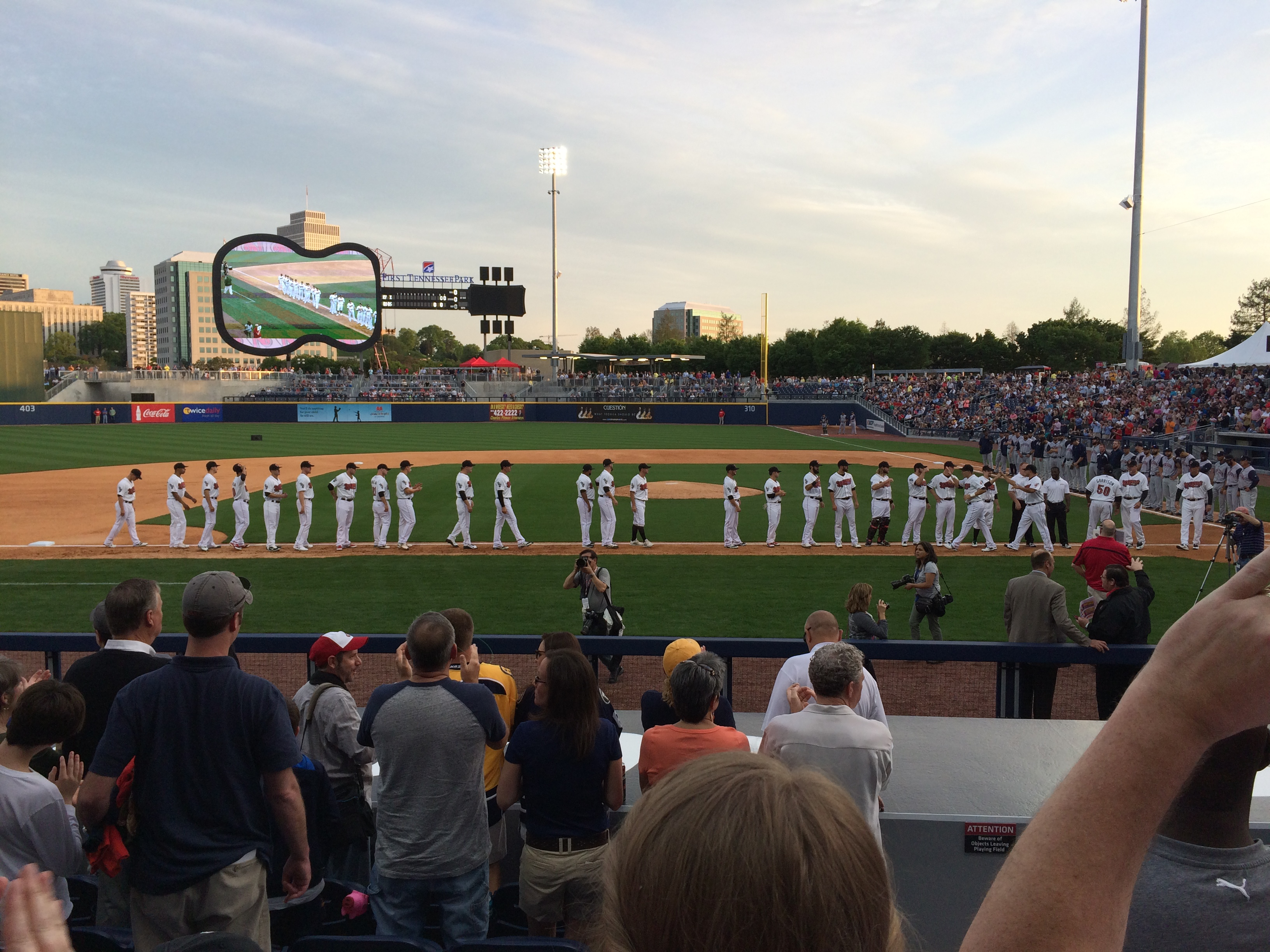 Players from the Nashville Sounds and Colorado Springs Sky Sox line up prior to the first game at First Tennessee Park on April 17, 2015